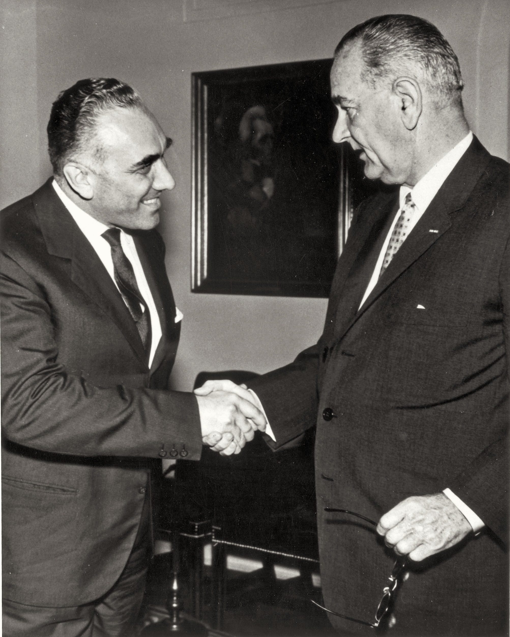 Italian publisher Giorgio Mondadori with Lyndon Johnson.